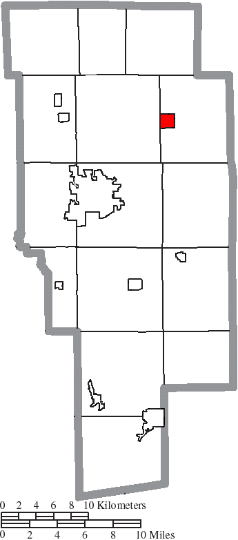 Map of the municipal and township boundaries of Ashland County, Ohio, United States, as of the 2000 census, with the location of the village of Polk highlighted. Township borders are shown only in unincorporated areas in order to differentiate incorporated and unincorporated areas more clearly.